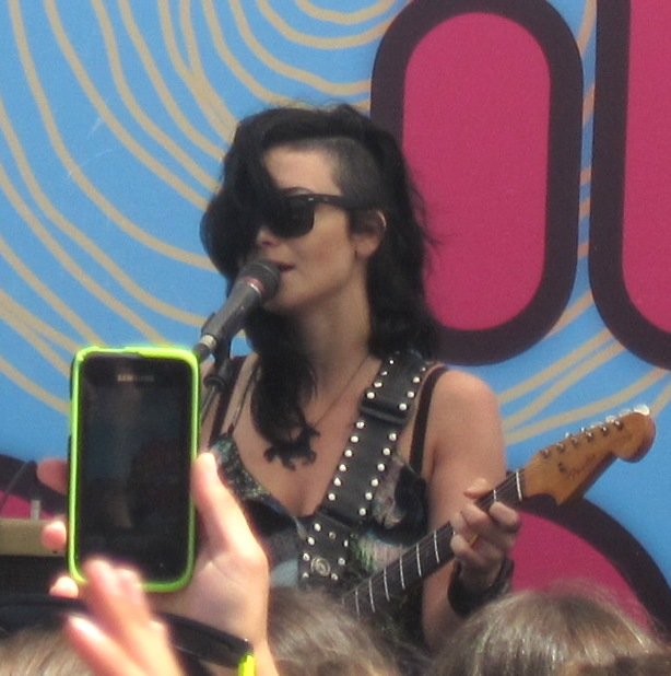 Athena Women's Walk Tel-Aviv 2012